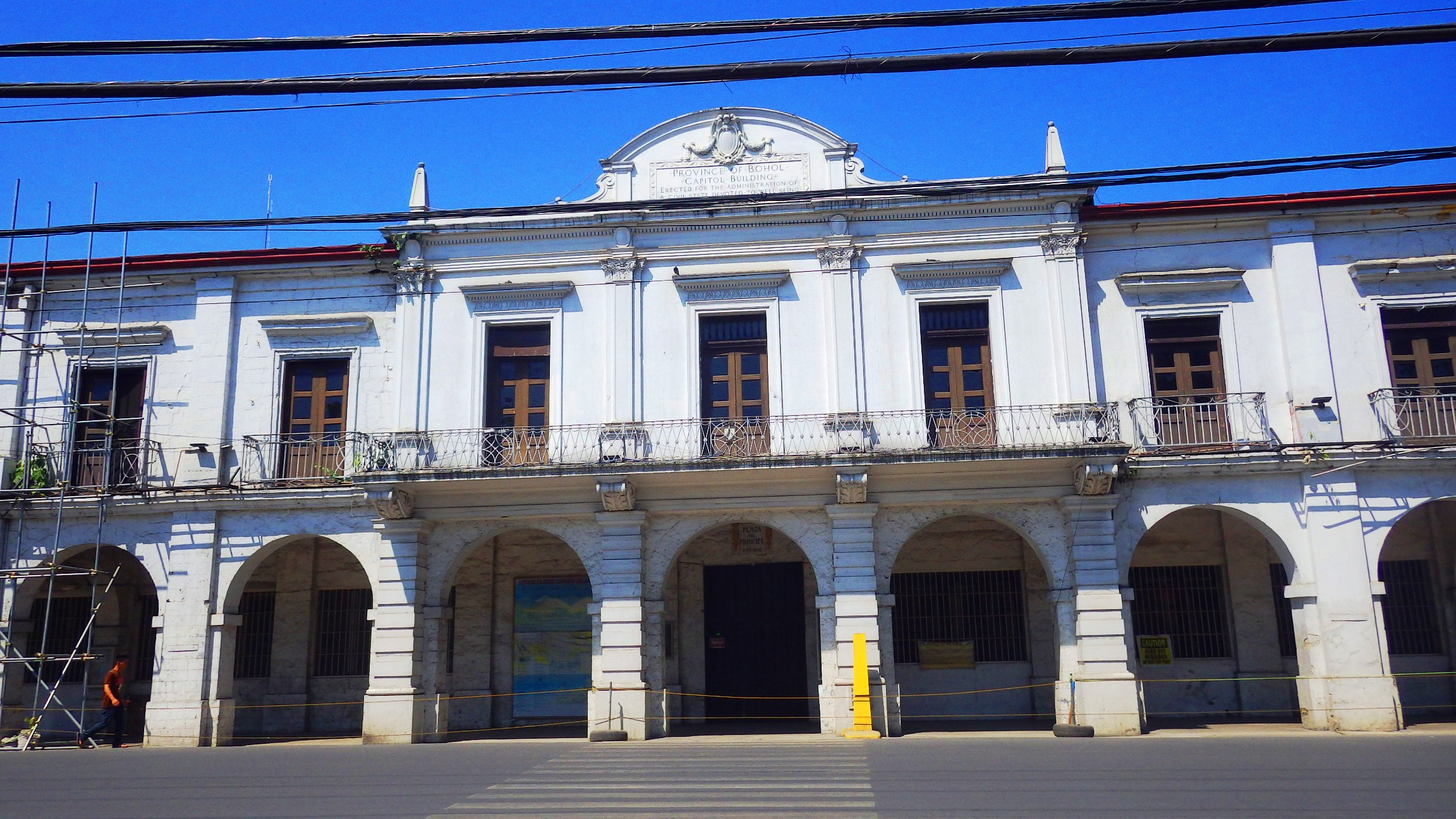 exterior